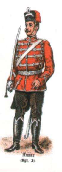 Prussian Hussar